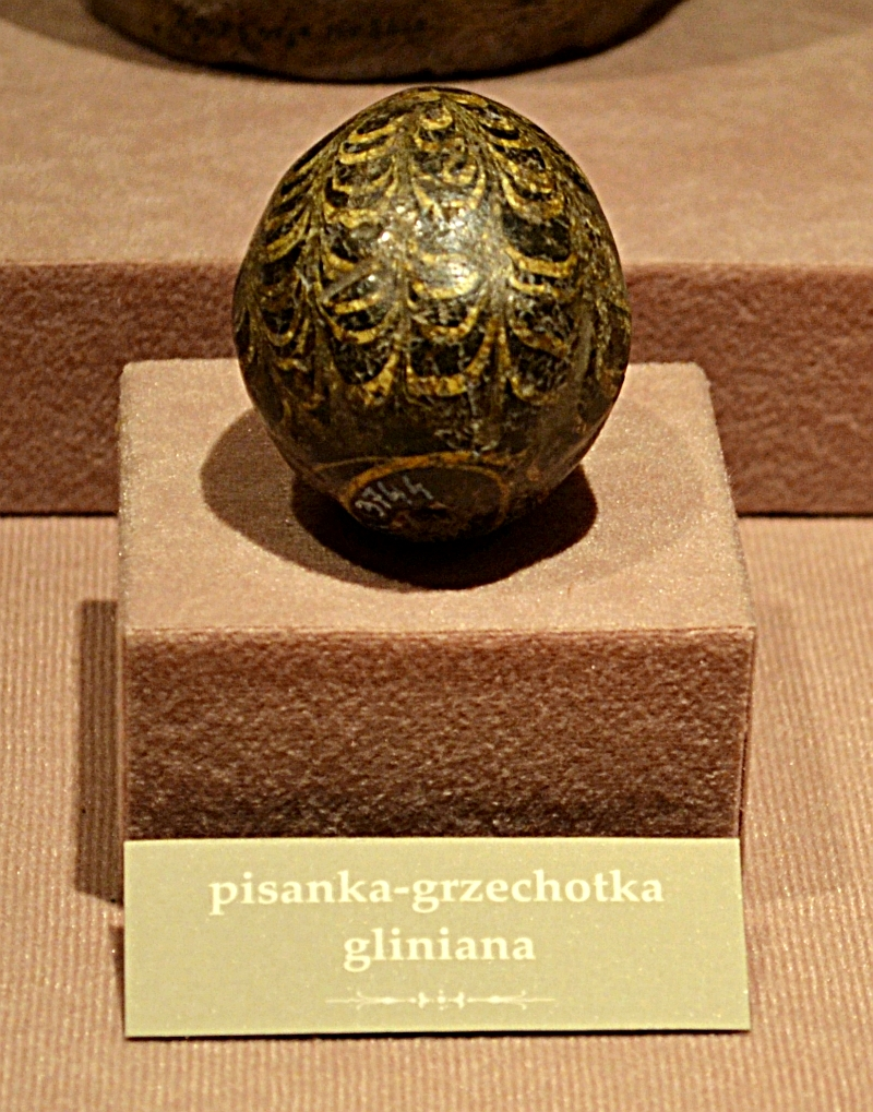 Ceramic egg, rattle c. 12th c. AD